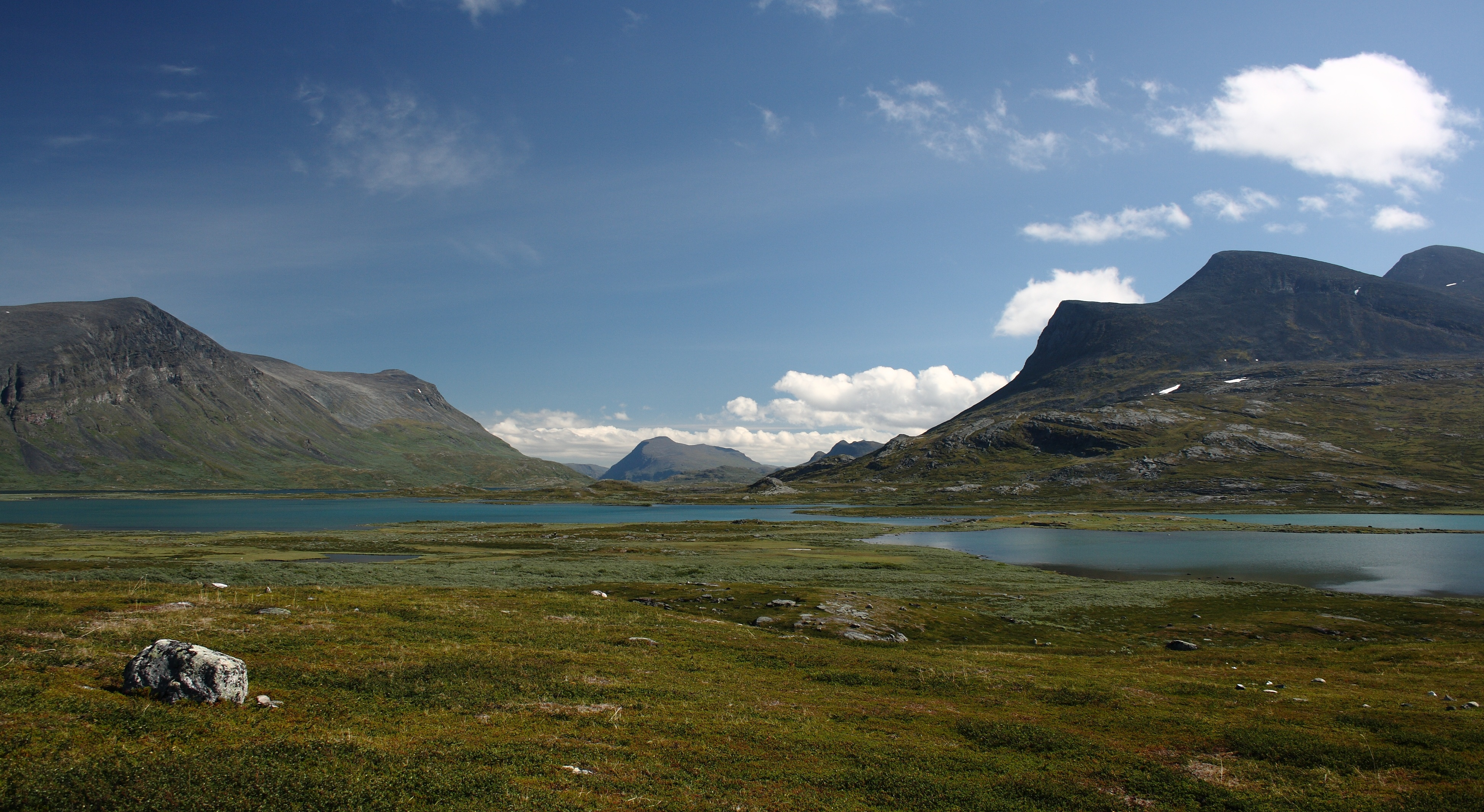 Kungsleden Landscape